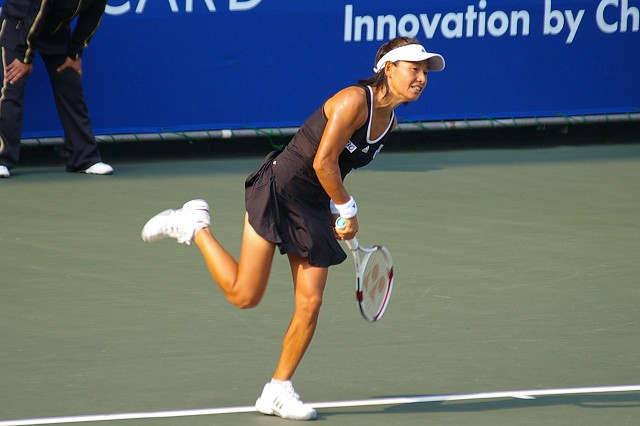 Kimiko DATE KRUMM (Toray Pan Pacific Open 2008)